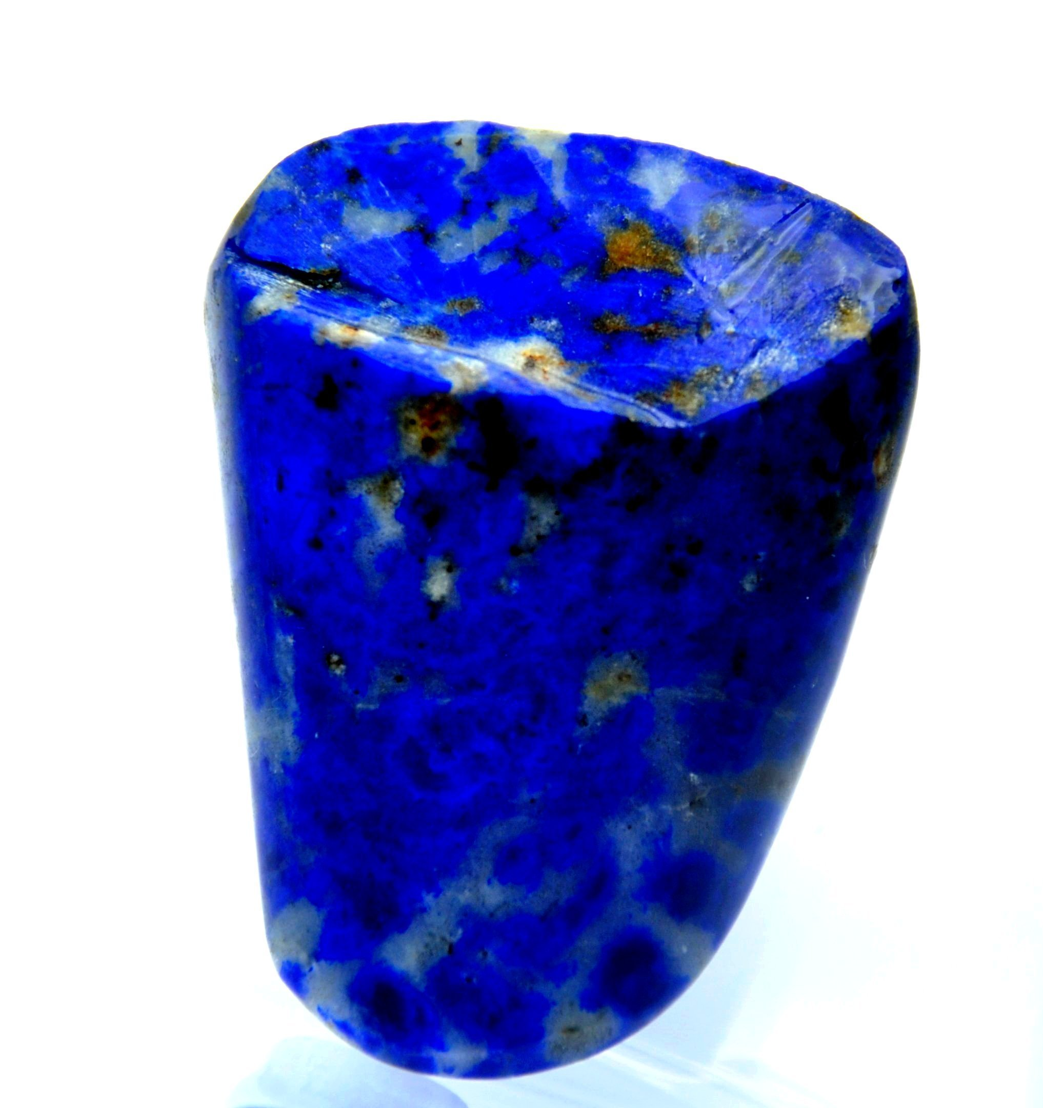 Lapis Lazuli, Afganistan.